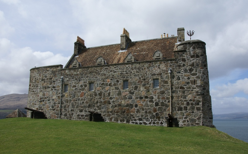 Duart Castle, Isle of Mull (Scotland)